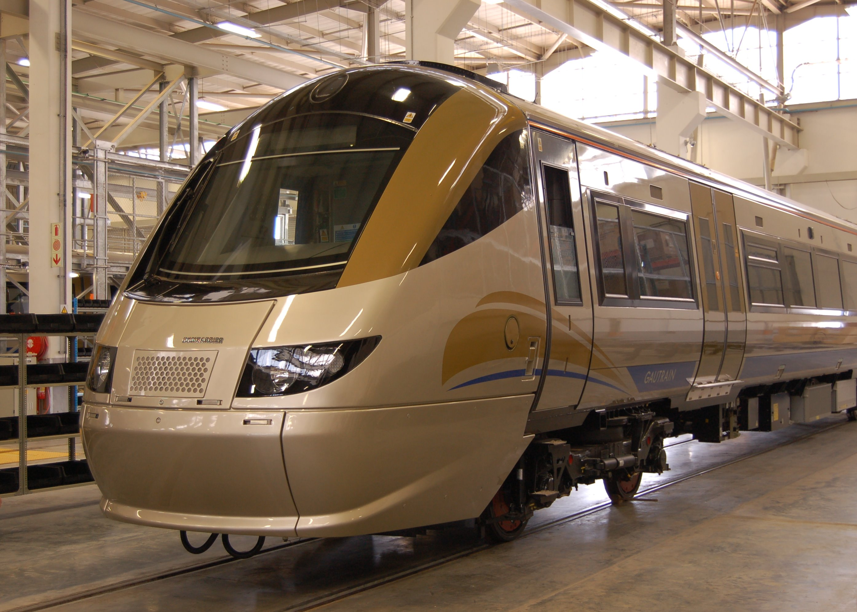 Gautrain inside the Midrand depot